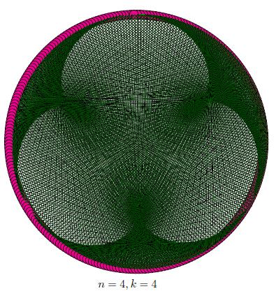 Undirected De Bruijn graph for n=4 and k=4